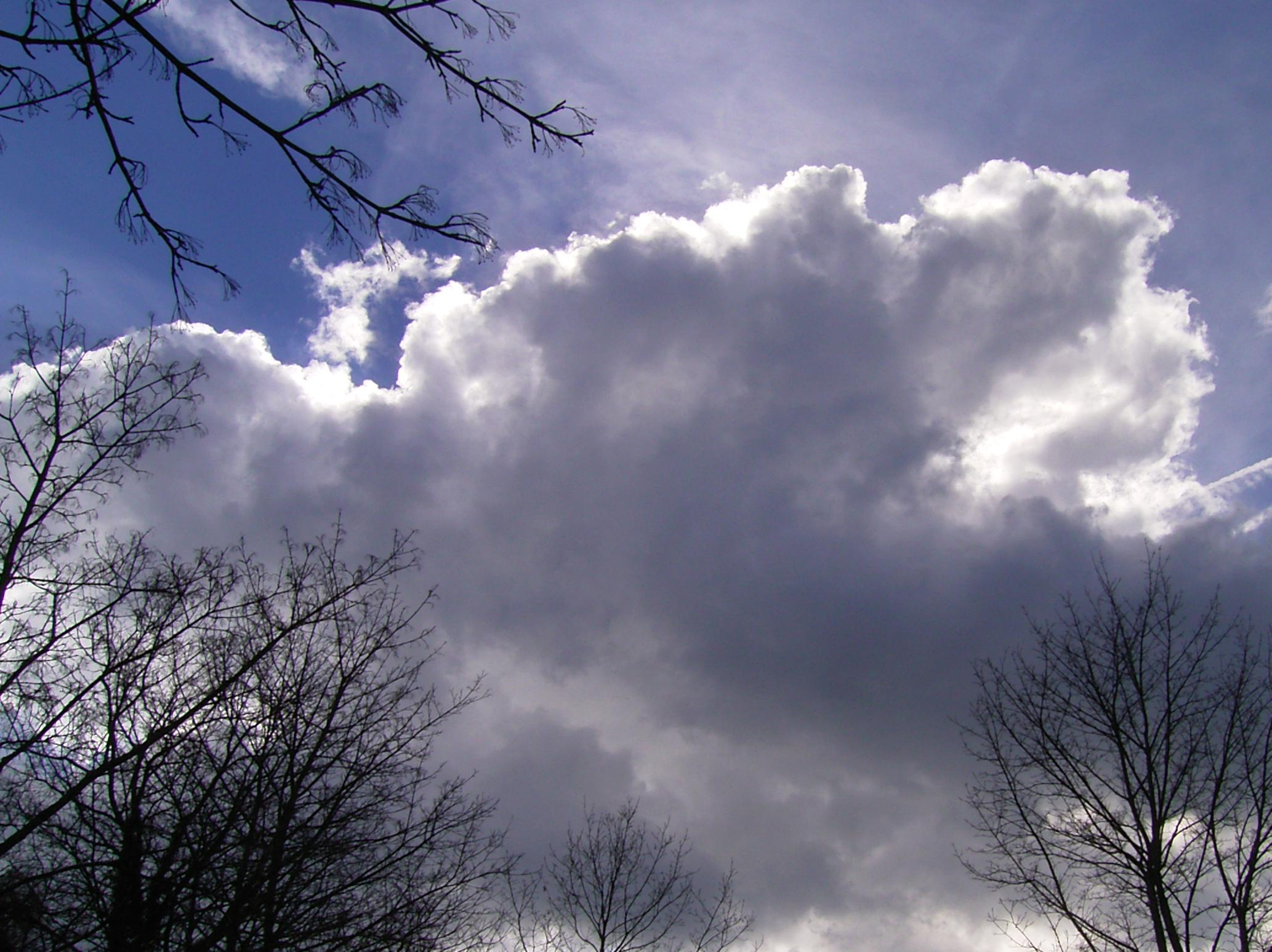 This cloud seems to be a Cumulus humilis (Cu hum), max. a Cumulus mediocris (cu med)